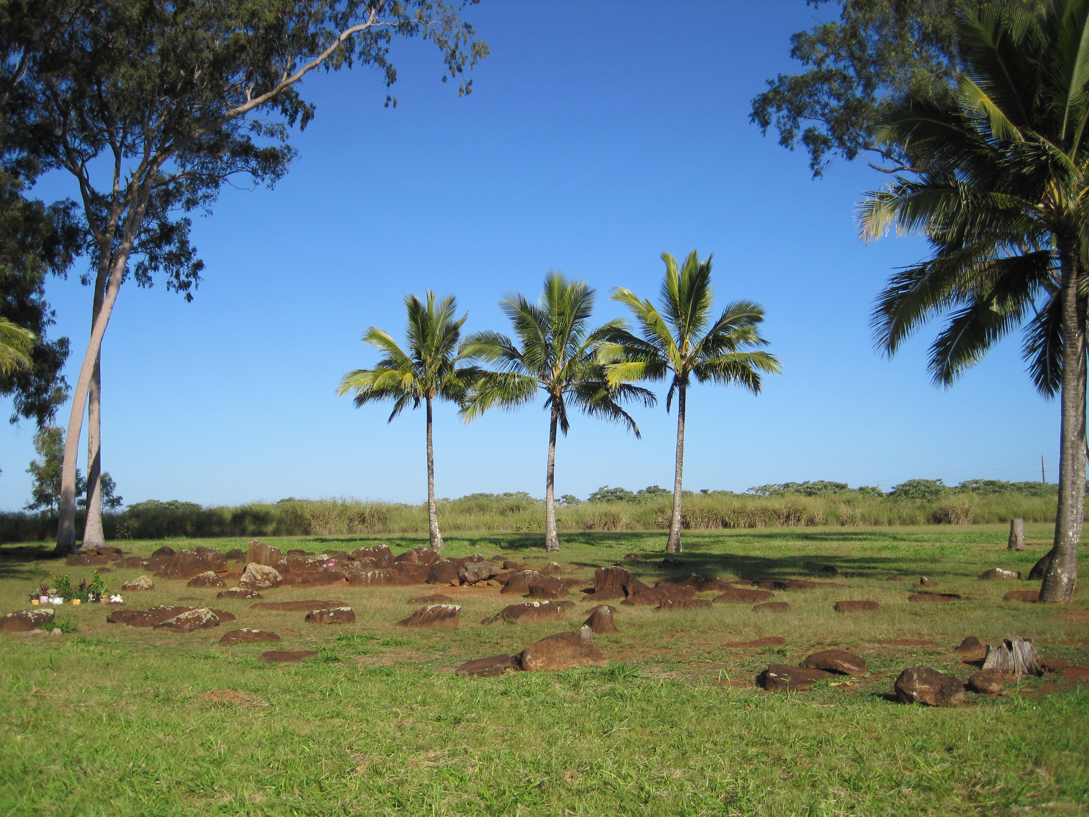 Central stones at Kūkaniloko Birthstones State Monument, on National Register of Historic Places